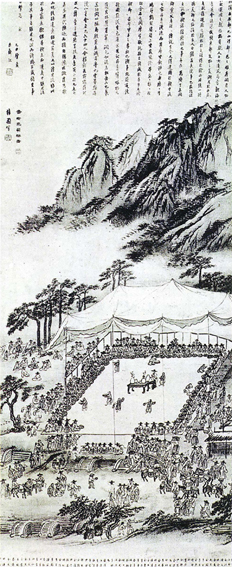 Kim Hong-do painting, Kyehoe on Site of Manwoldae